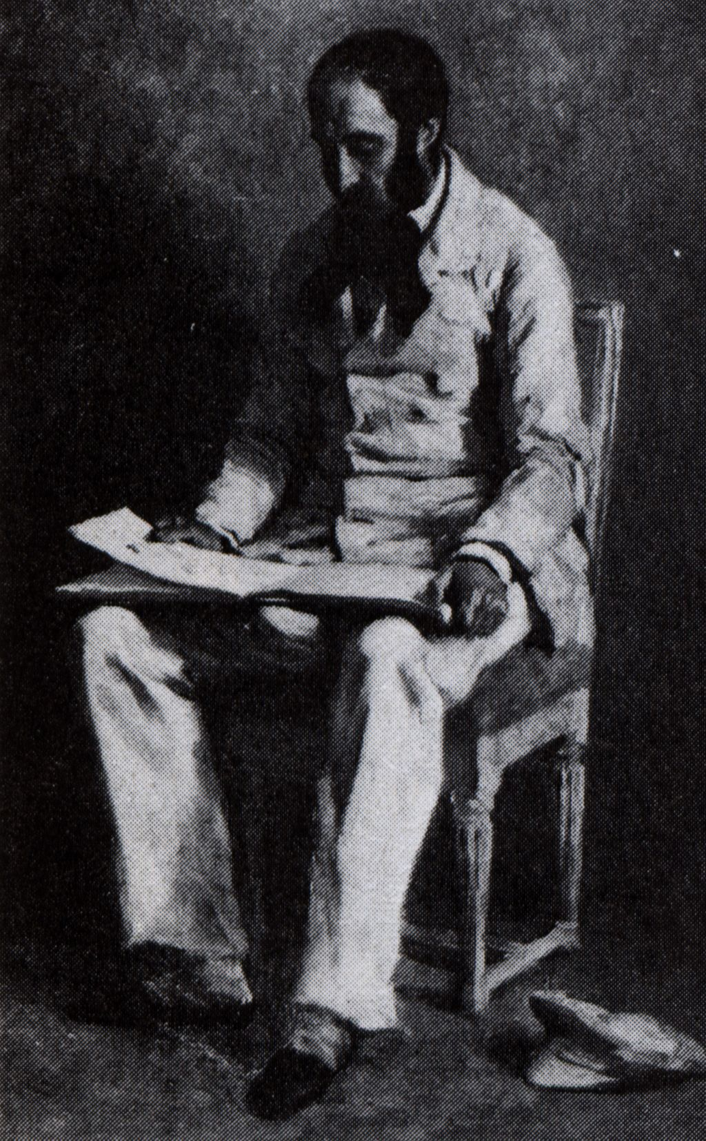 Portrait of Ernest Feydeau by Chaplin